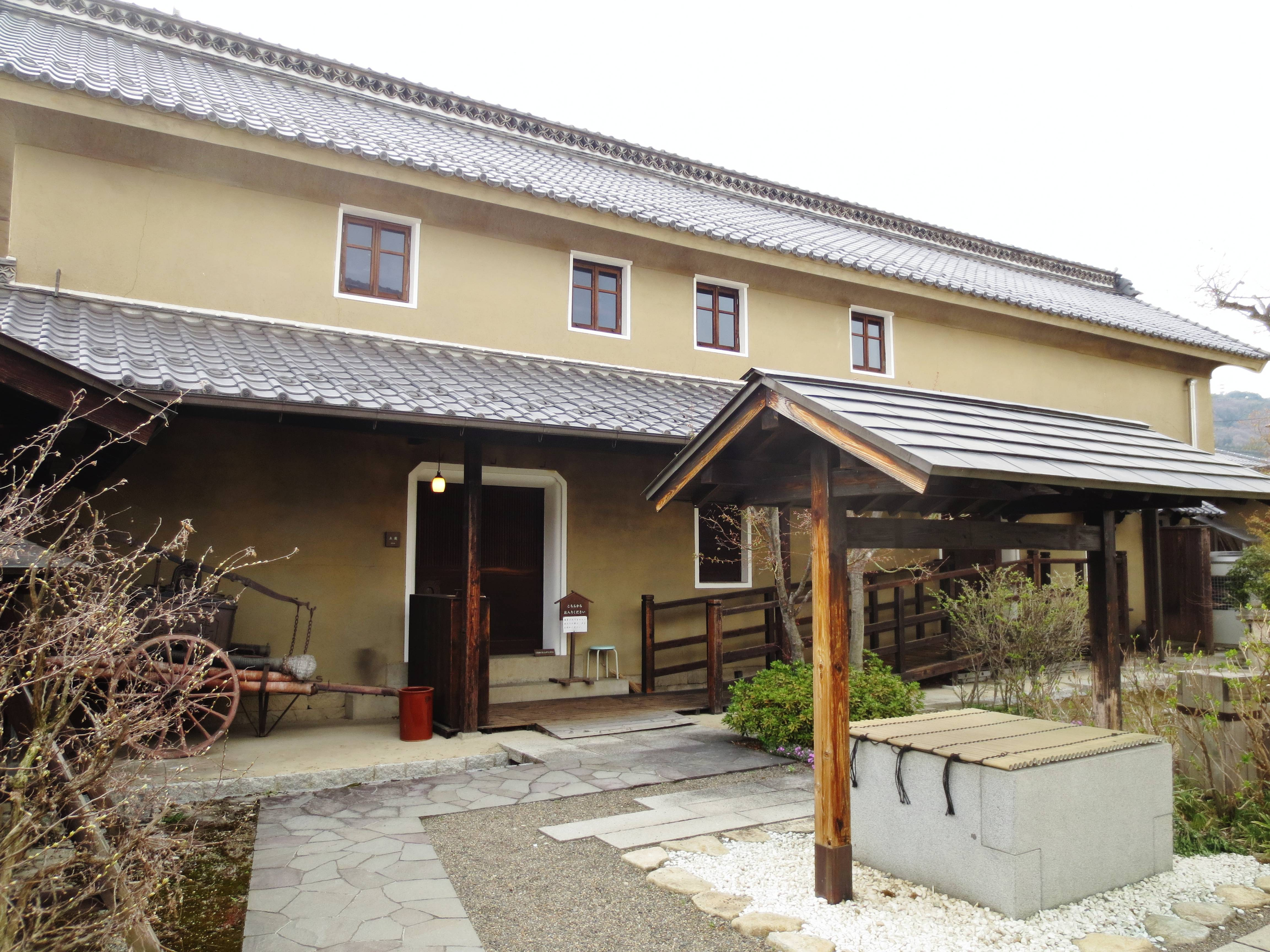 Inariyama-juku Kurashikan.